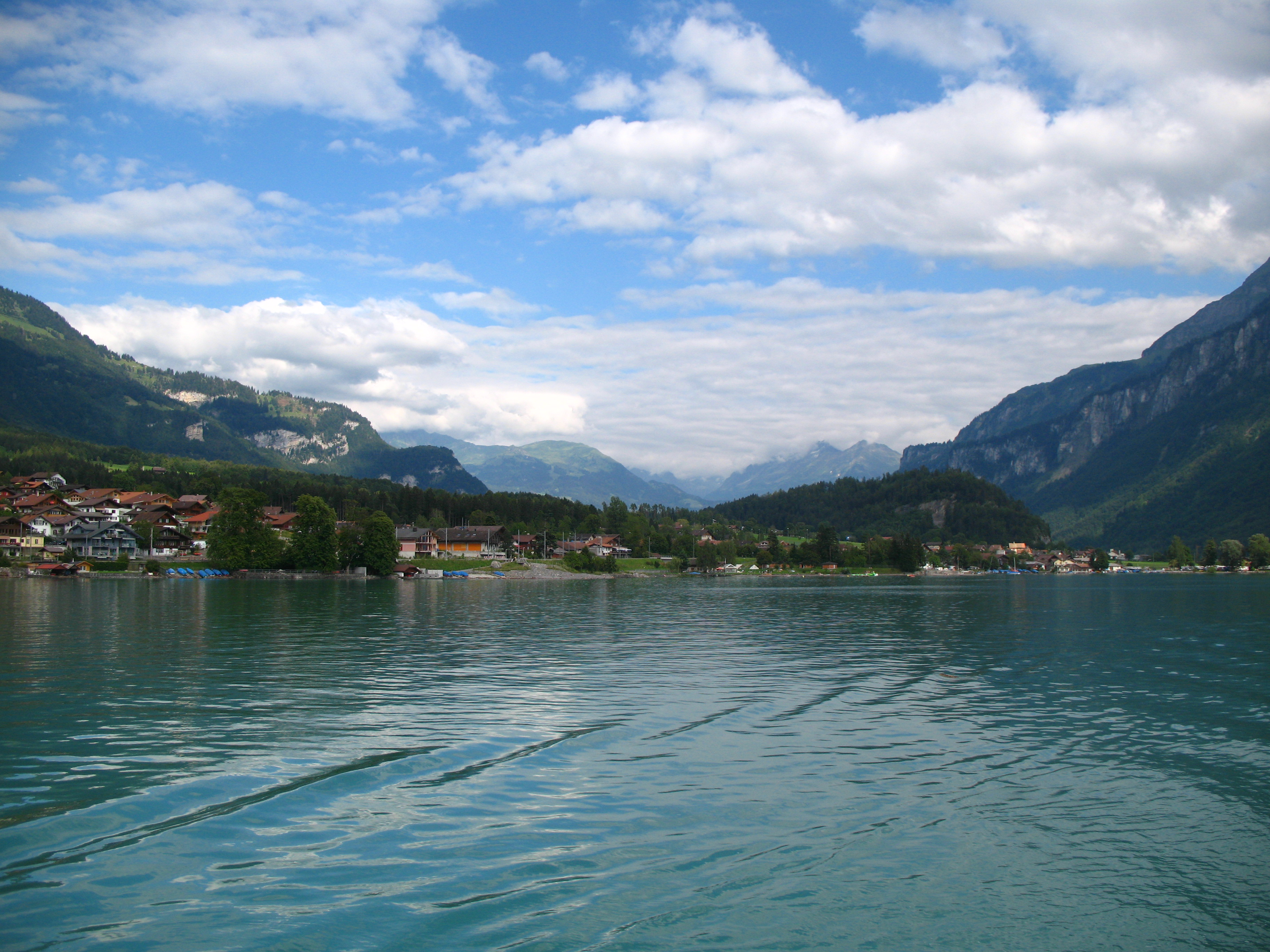 Schwanden bei Brienz on Lake Brienz, Brienz, Switzerland